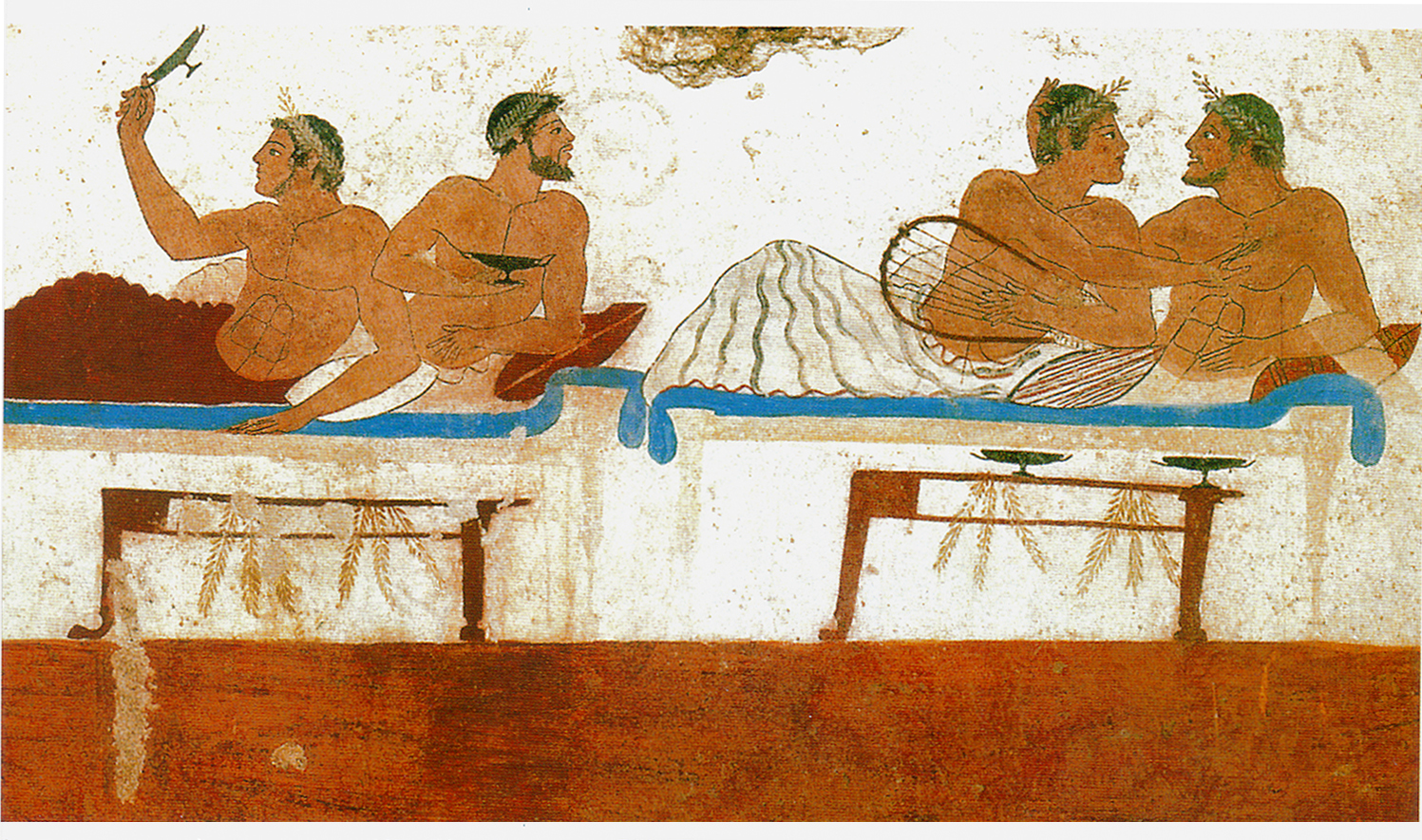 Detail of a Fresco from the North wall of the Tomb of the Diver in Paestum, Italy.